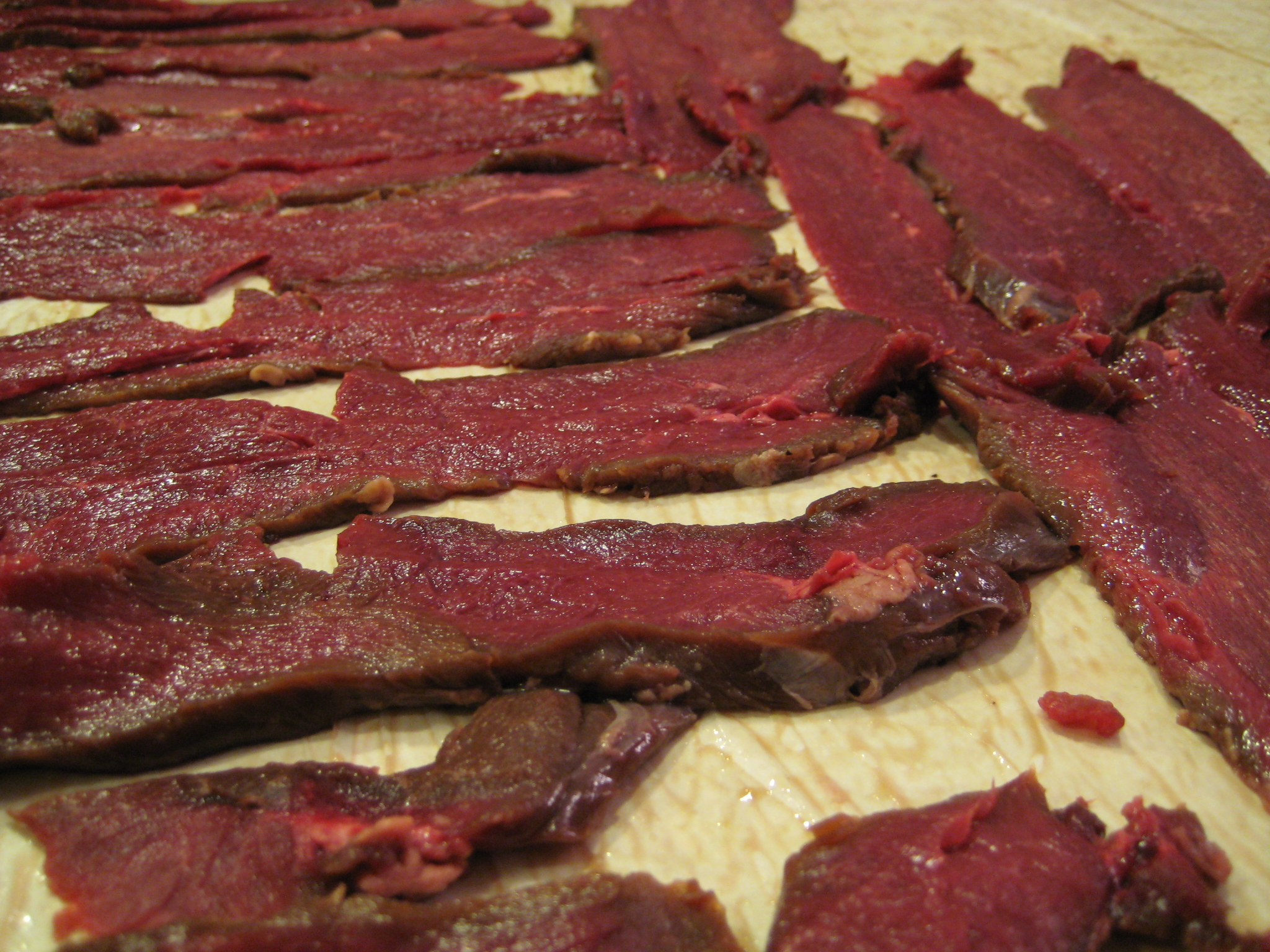 Venison jerky strips prior to drying